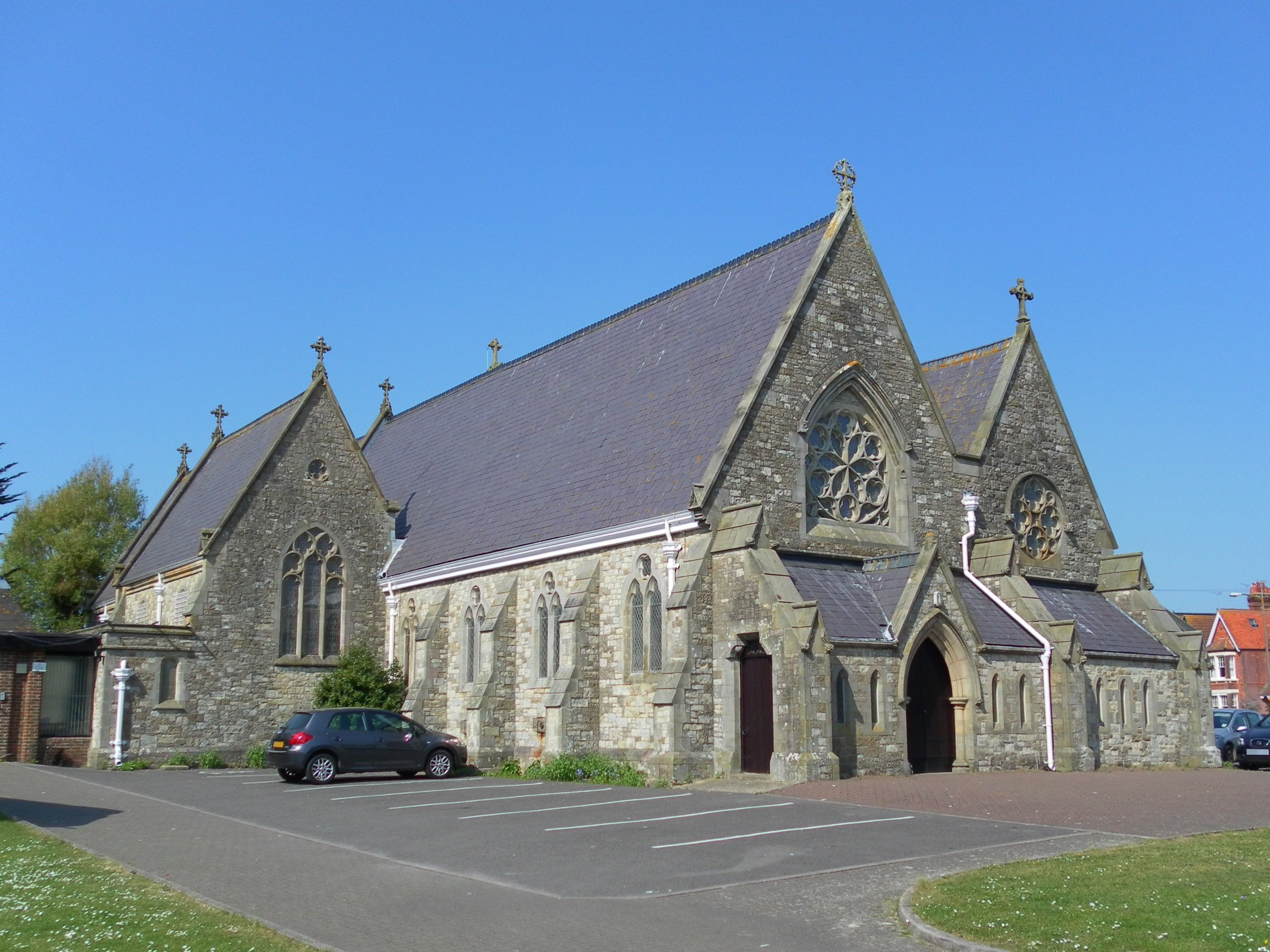 St Catherine's Church, Beach Road, Littlehampton, Arun District, West Sussex, England. The Roman Catholic parish church of Littlehampton. Listed at Grade II by English Heritage (NHLE Code 1027807)